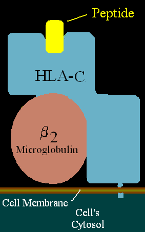 Illustation of an HLA-C showing the HLA-C 'alpha' chain, β2-Microglobulin, and the end of a peptide bound in the binding cleft.